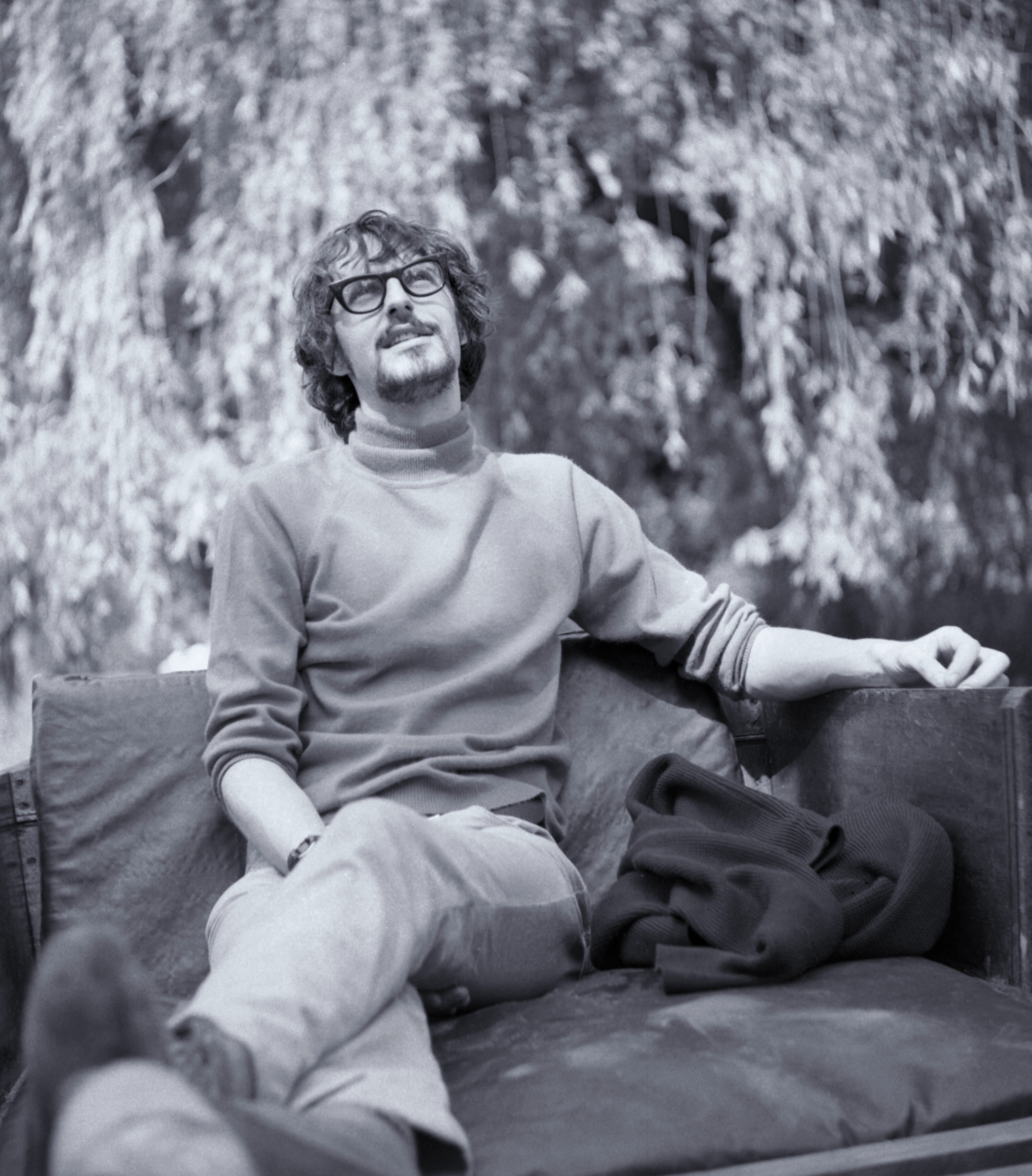 Jonathan King taken in Cambridge.